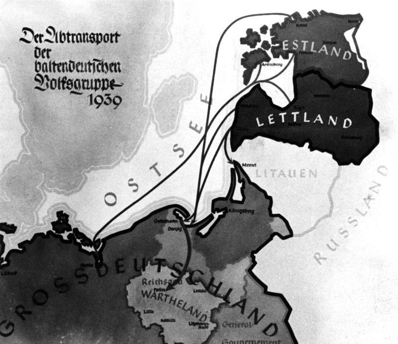 Map showing the Nazi's plans for the forced relocation of Baltic Germans, called "remigrants", in "Warthegau"